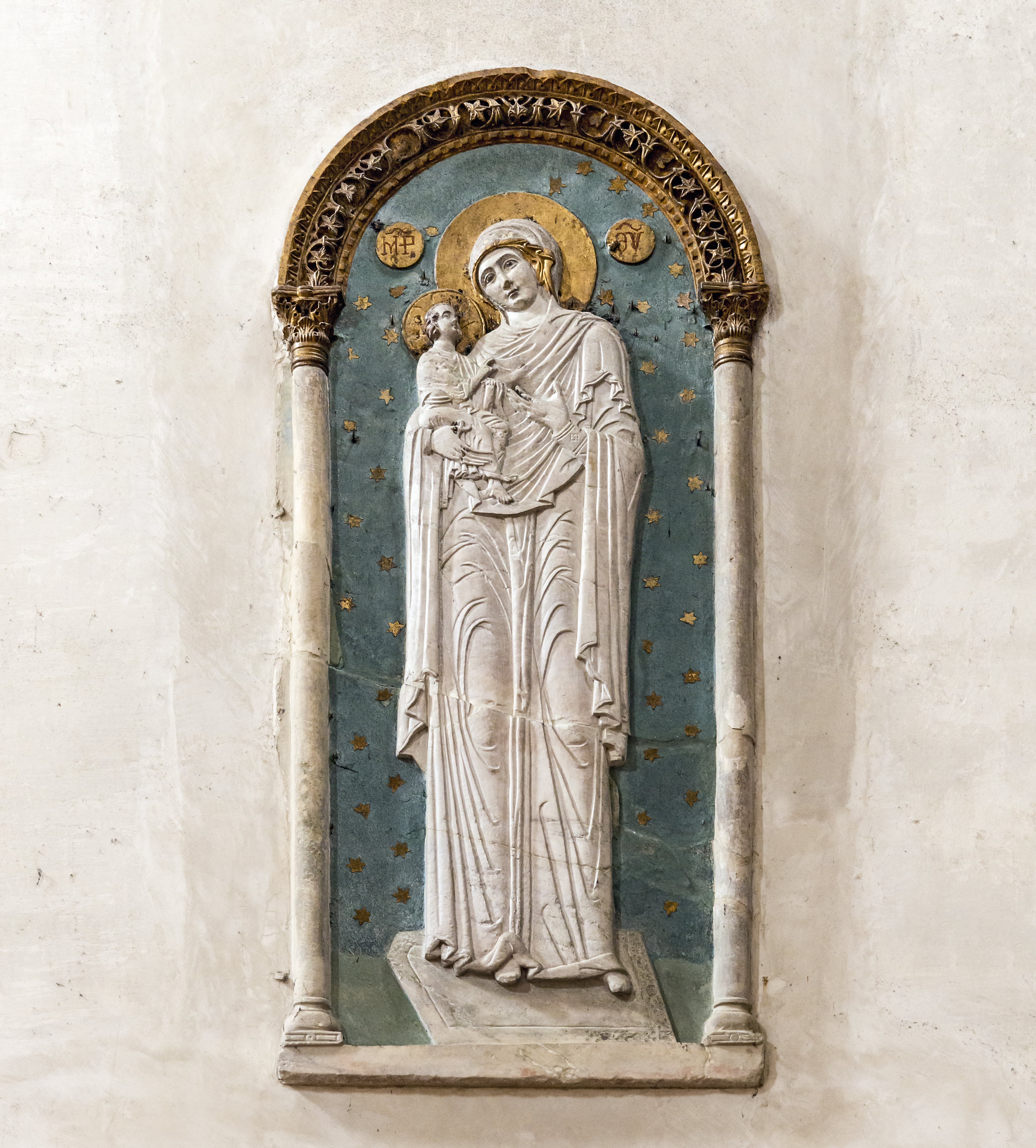 Counter-façade of San Francesco della Vigna (Venice). Virgin with child, Byzantine of the twelfth century.